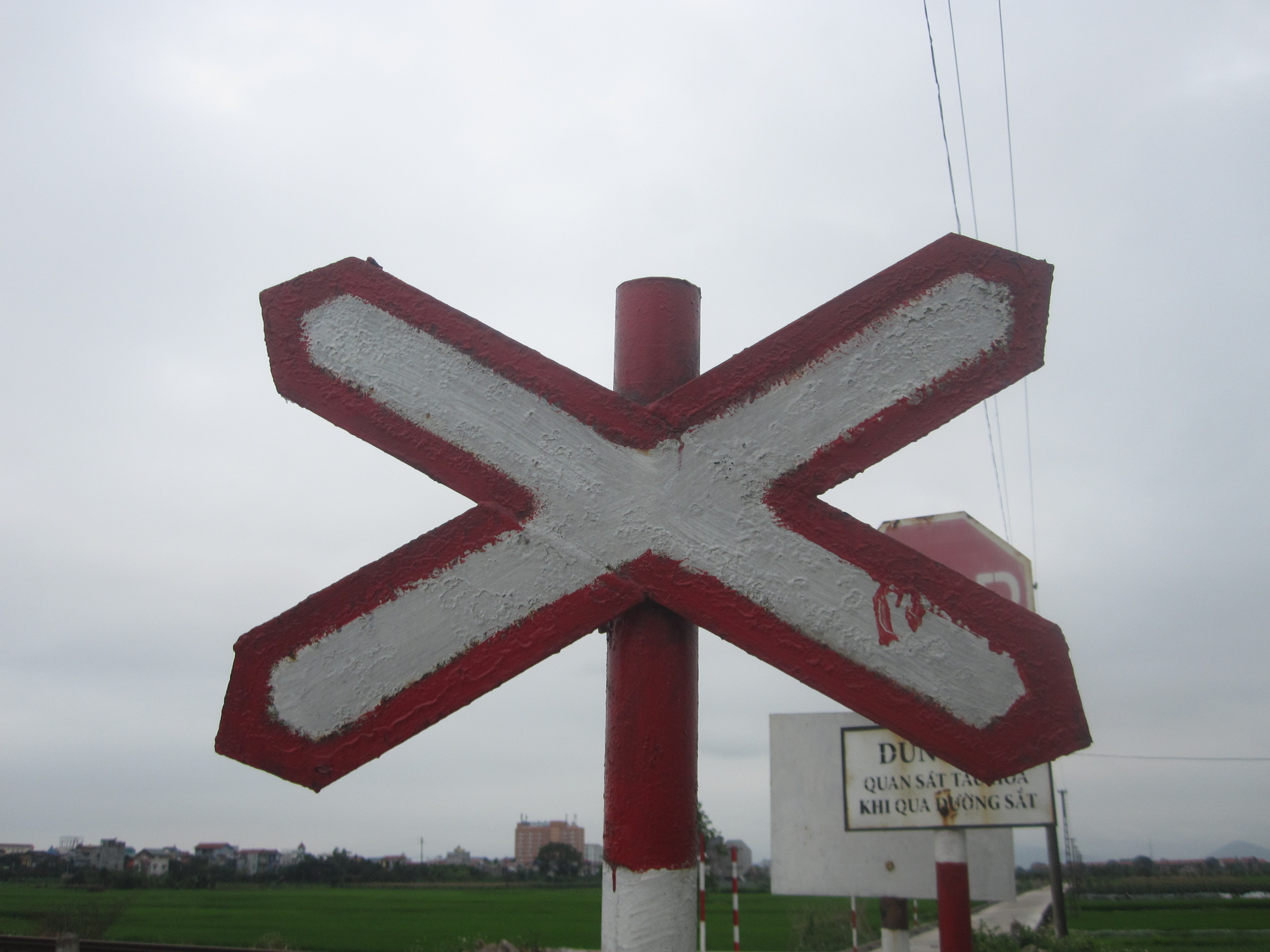 A Vietnamese crossing sign , with no gate and lights